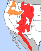 Range of the Short-horned Lizard. Phrynosoma douglasii in yellow. Phrynosoma hernandesi in red.